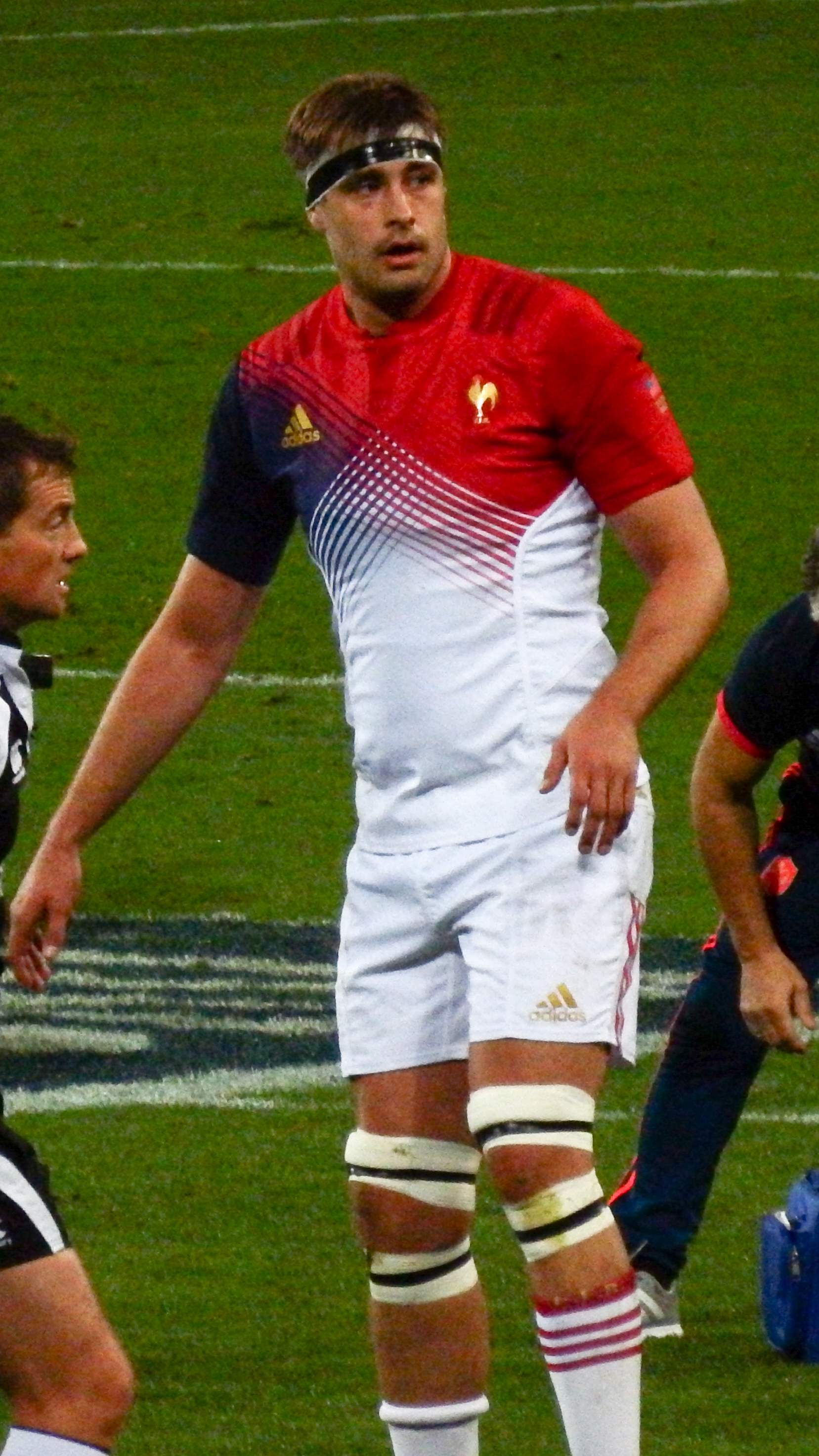 rugby union friendly match — 12 November 2016, Stadium Municipal. Match between: France national rugby union team — Samoa national rugby union team